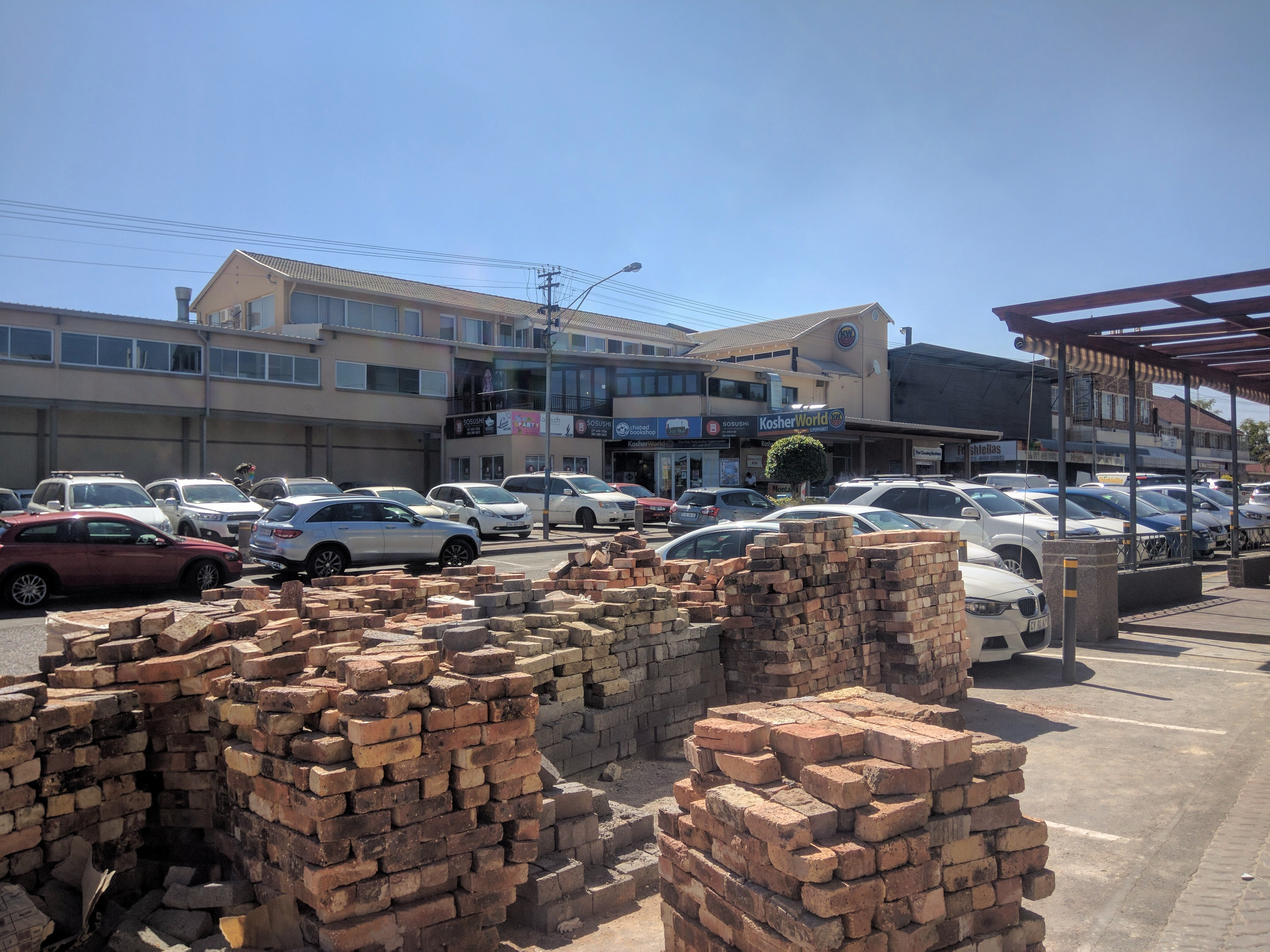 The centre of the suburb of Glenhazel in South Africa Johannesburg. Corner Long and Ridge avenue